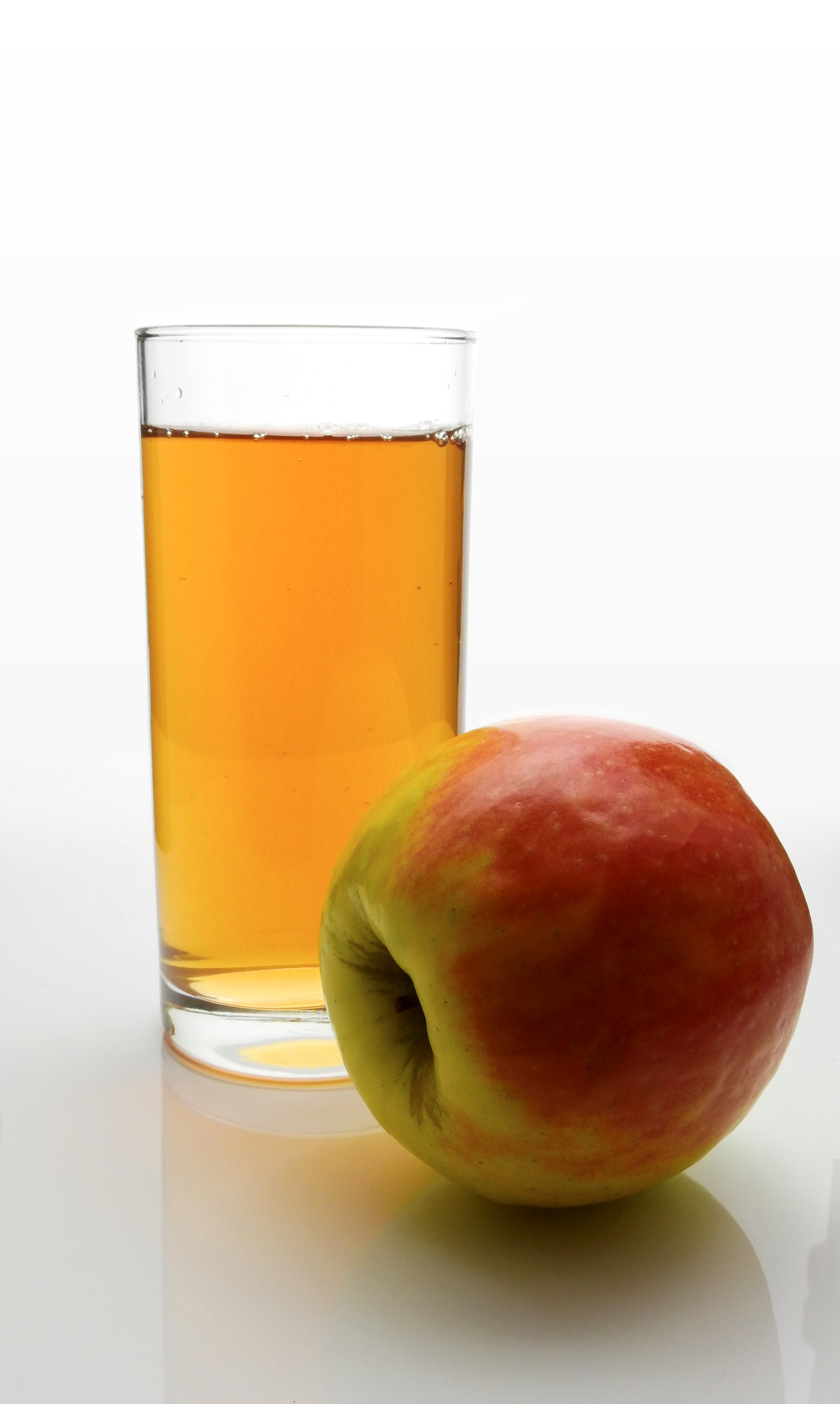 Apple juice